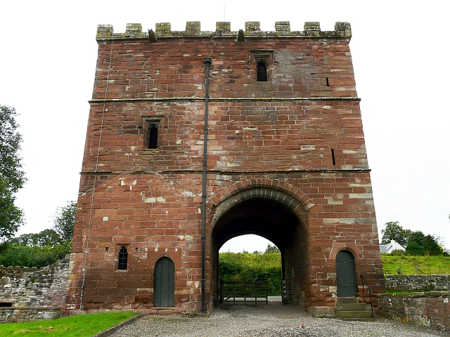 Interior of Wetheral Priory Gatehouse